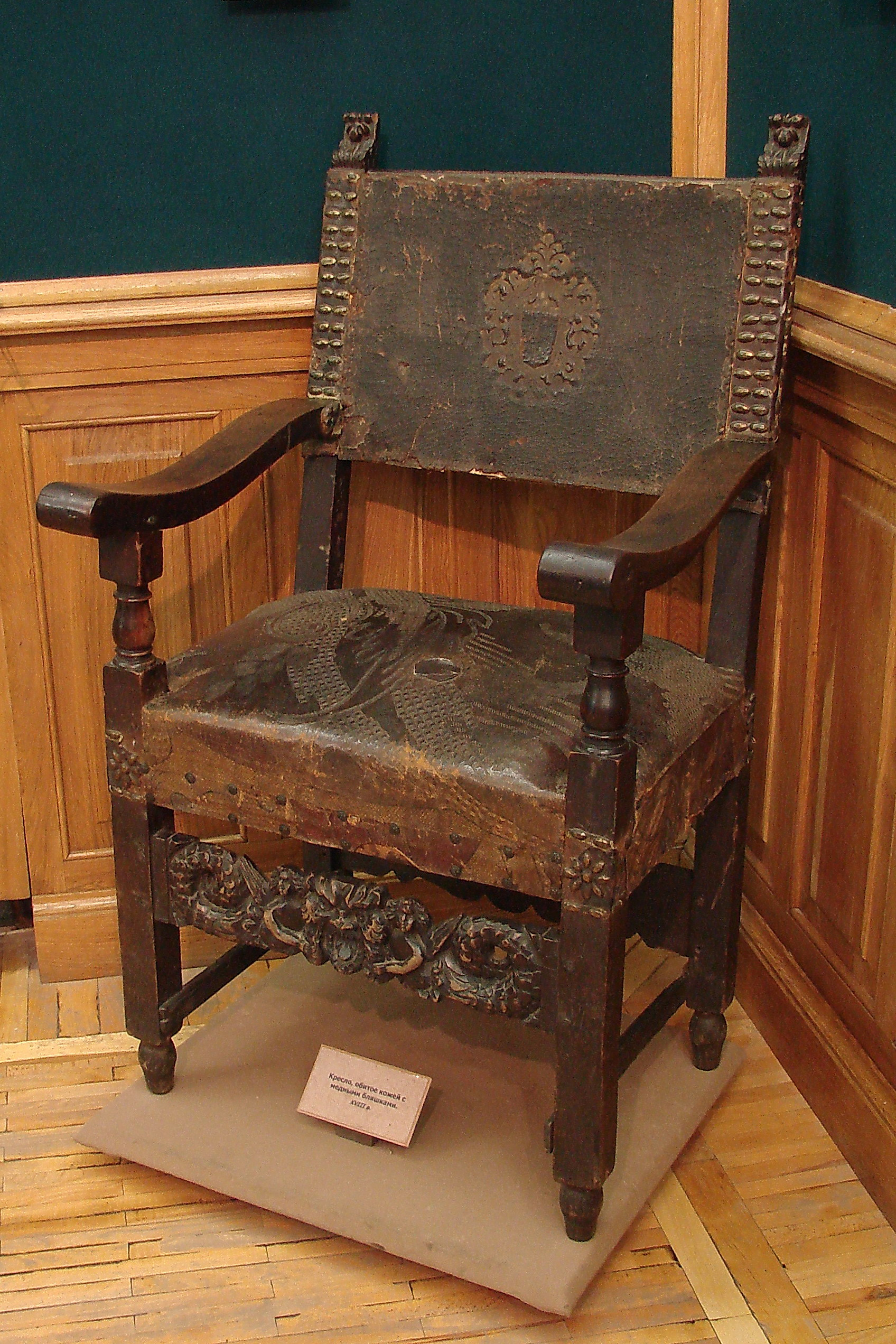 Chair upholstered in leather with brass plaques XVIII century